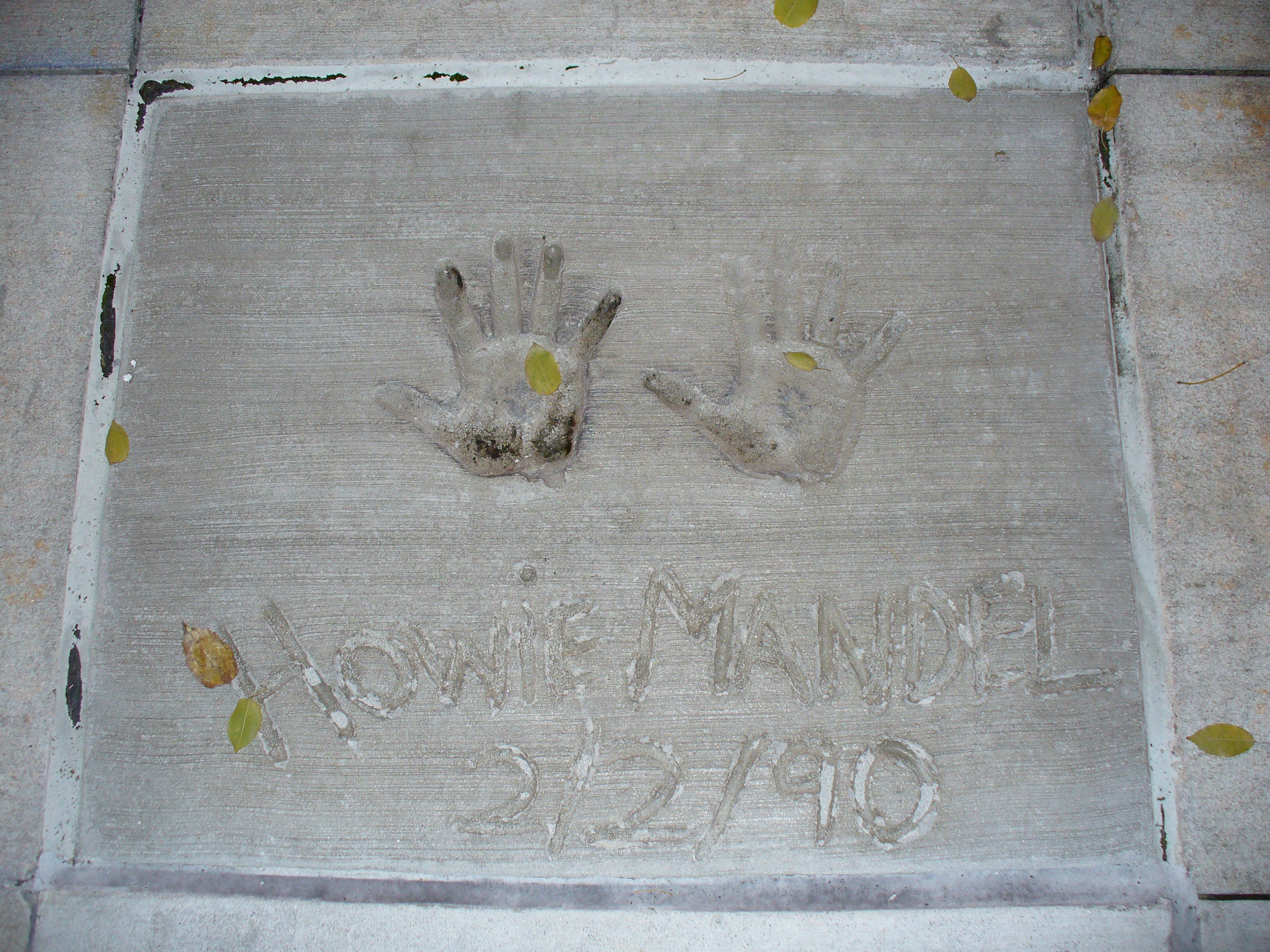 I am the originator of this photo. I hold the copyright. I release it to the public domain. This photo depicts the handprints of Howie Mandel in front of Hollywood Hills Amphitheater at Walt Disney World's Disney's Hollywood Studios theme park.